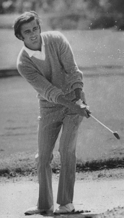 1973 Press Photo Golfer Dave Hill - nox24491